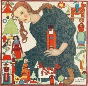 Christmas Picture Book